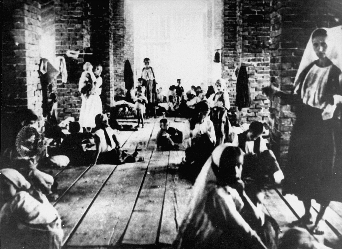 Mothers and children imprisoned in the "Kula" (tower) of the Stara Gradiska concentration camp.